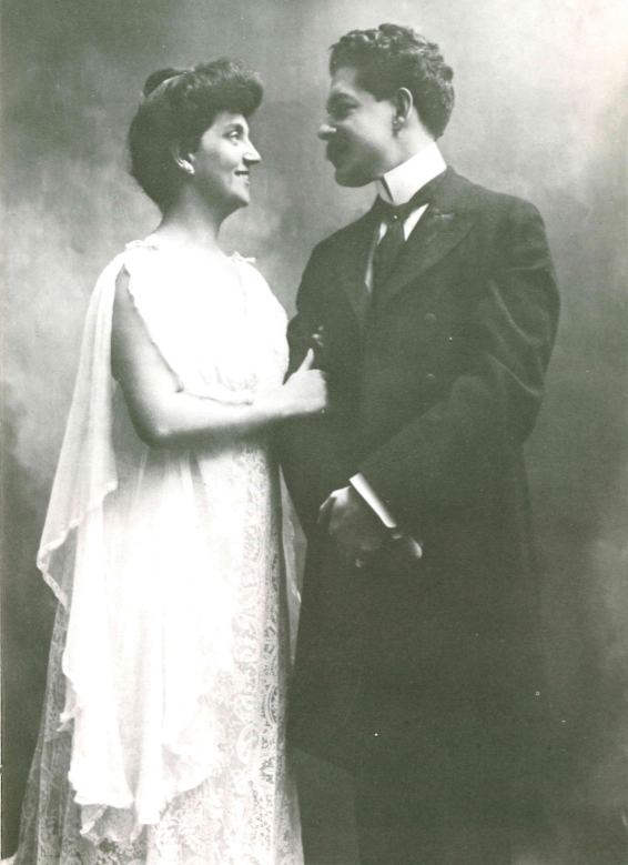 Luisa d'Asburgo-Lorena and her husband, Enrico Toselli